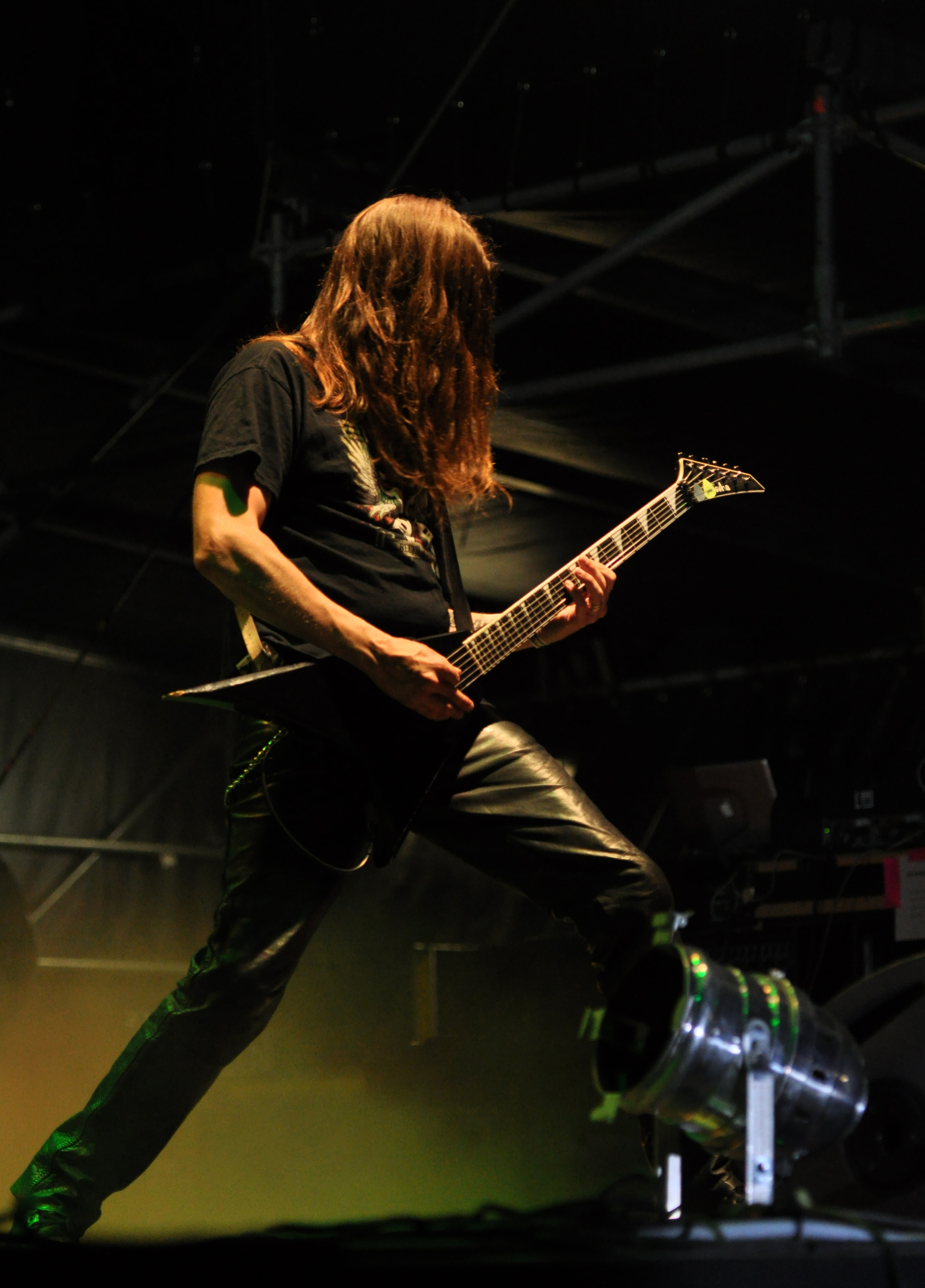 Unleashed at Party.San Metal Open Air 2013